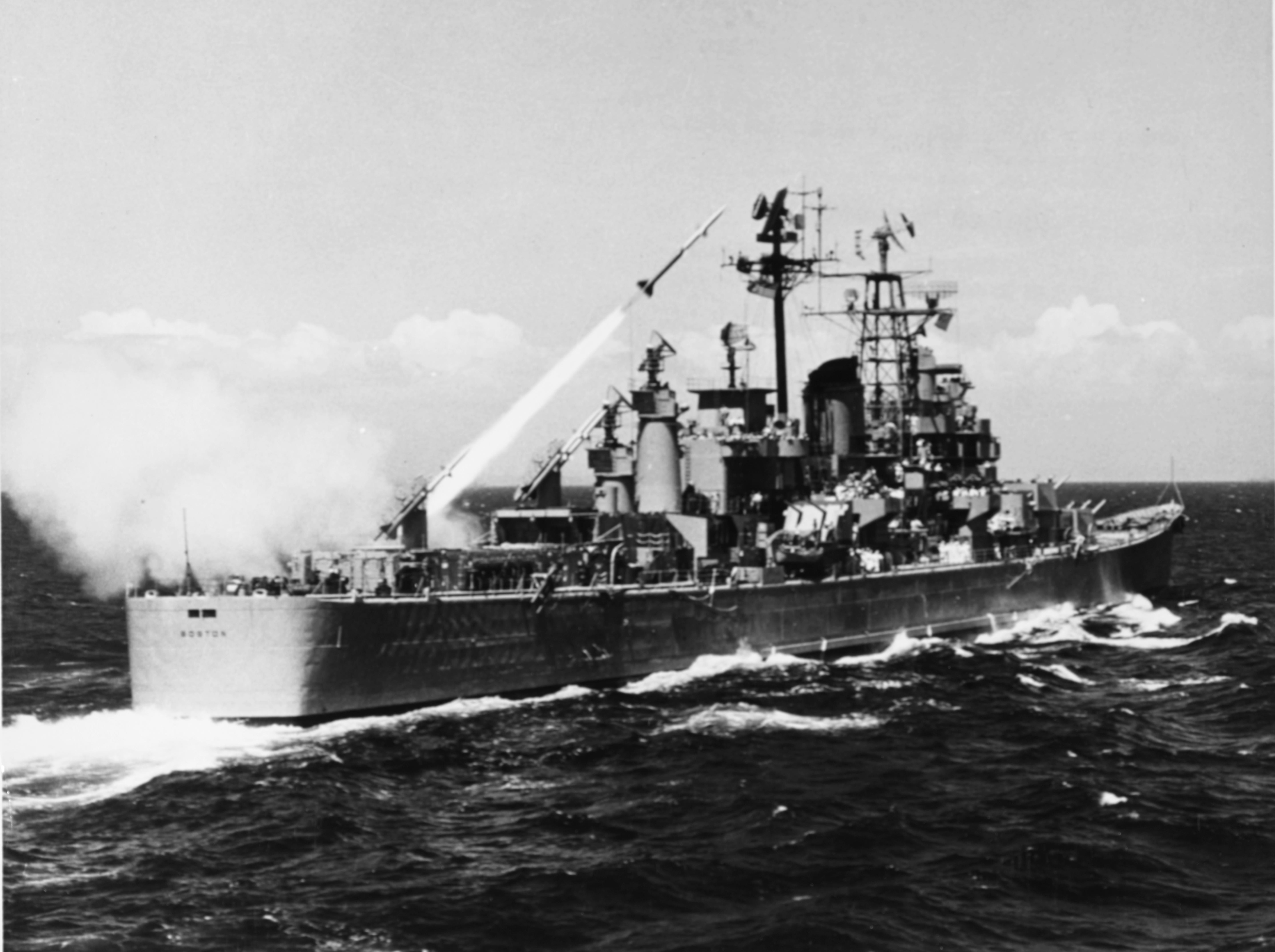 The U.S. Navy guided missile cruiser USS Boston (CAG-1) fires a SAM-N-7 Terrier missile from her after launcher, during a training cruise, in August 1956.